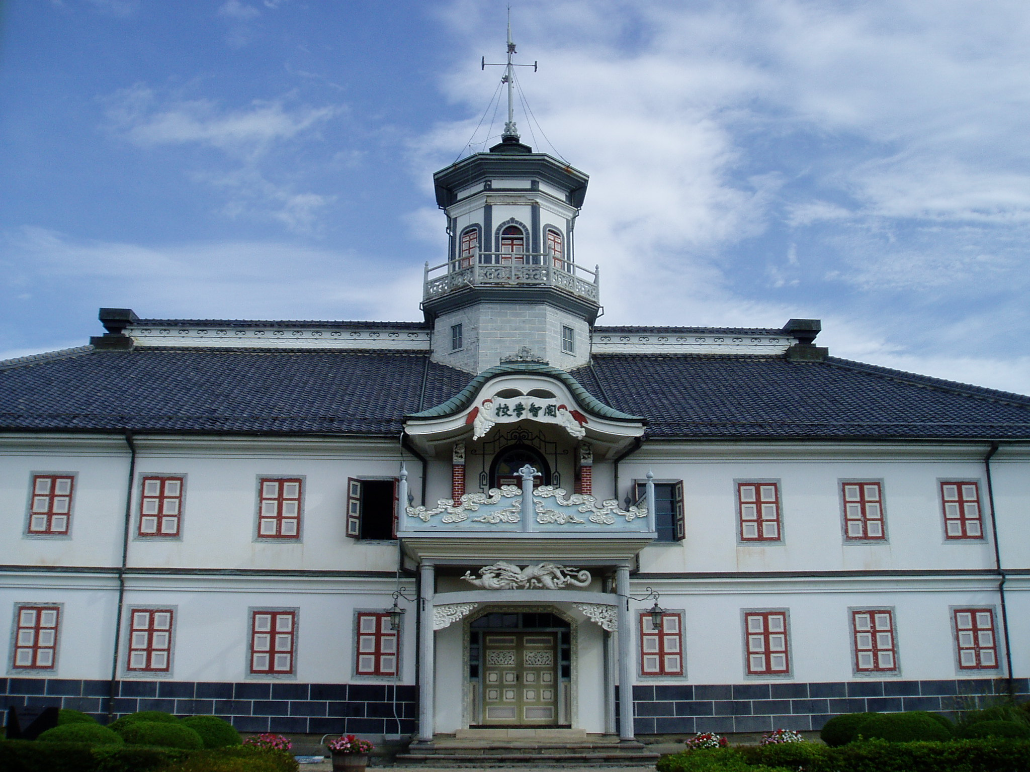 Former Kaichi School (Kyū Kaichi Gakkō; 旧開智学校) in Matsumoto, Nagano, Japan.